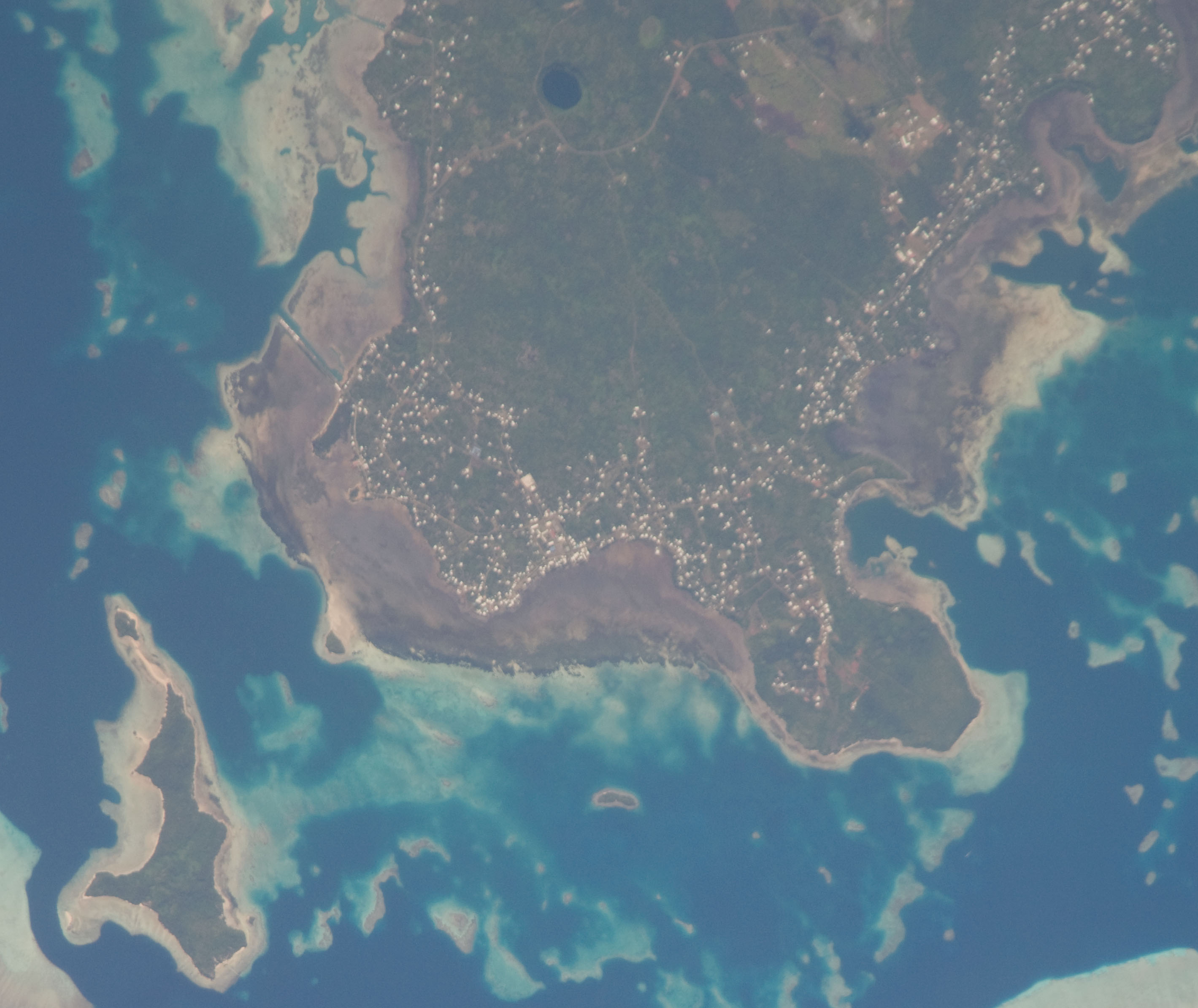 Satellite picture of Wallis island taken by NASA (North oriented). Mu'a district is visible with the Lanutavake lake.